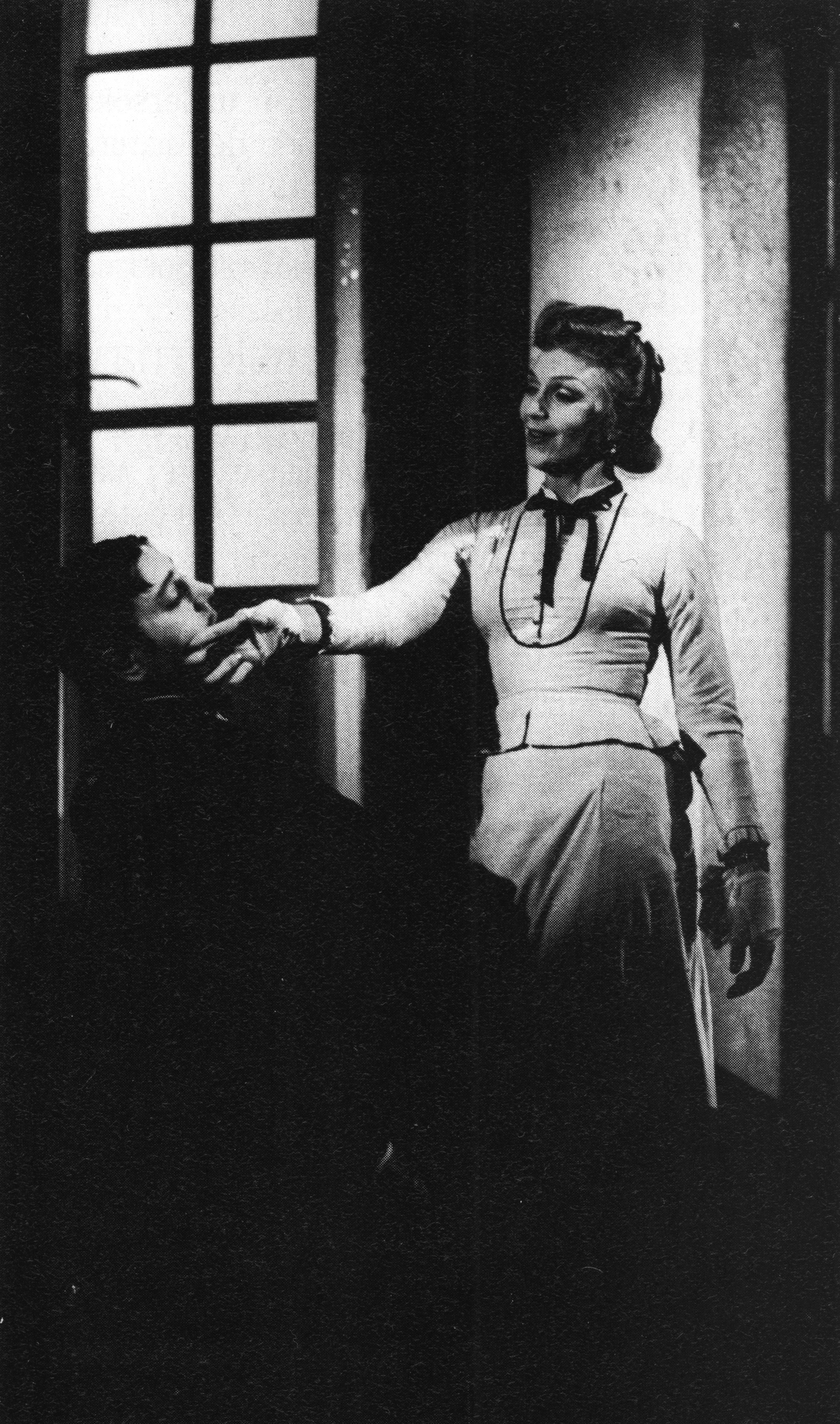 Scene from Strindberg's "Miss Julie" on the Royal Dramatic Theatre in Stockholm with Inga Tidblad and Ulf Palme as Julie and Jean.